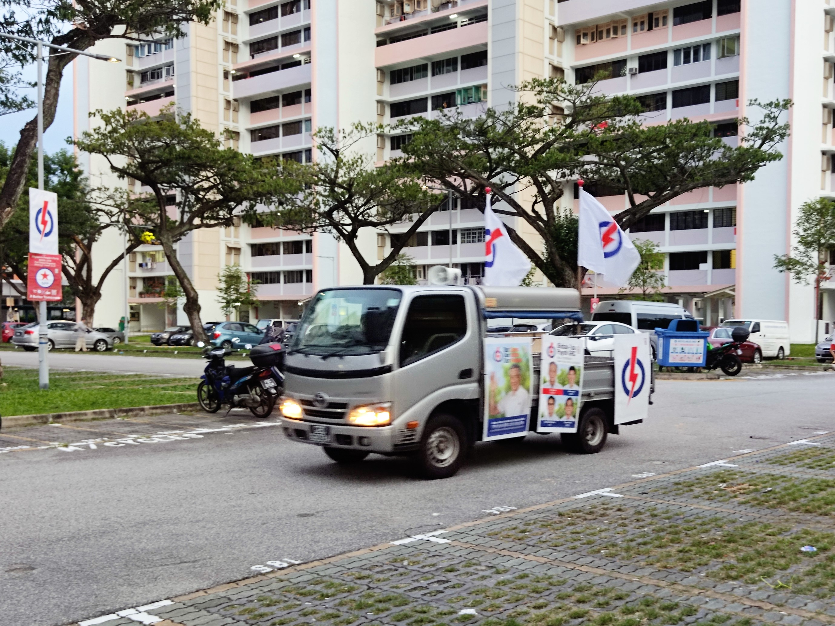 A PAP campaign vehicle during the GE2020